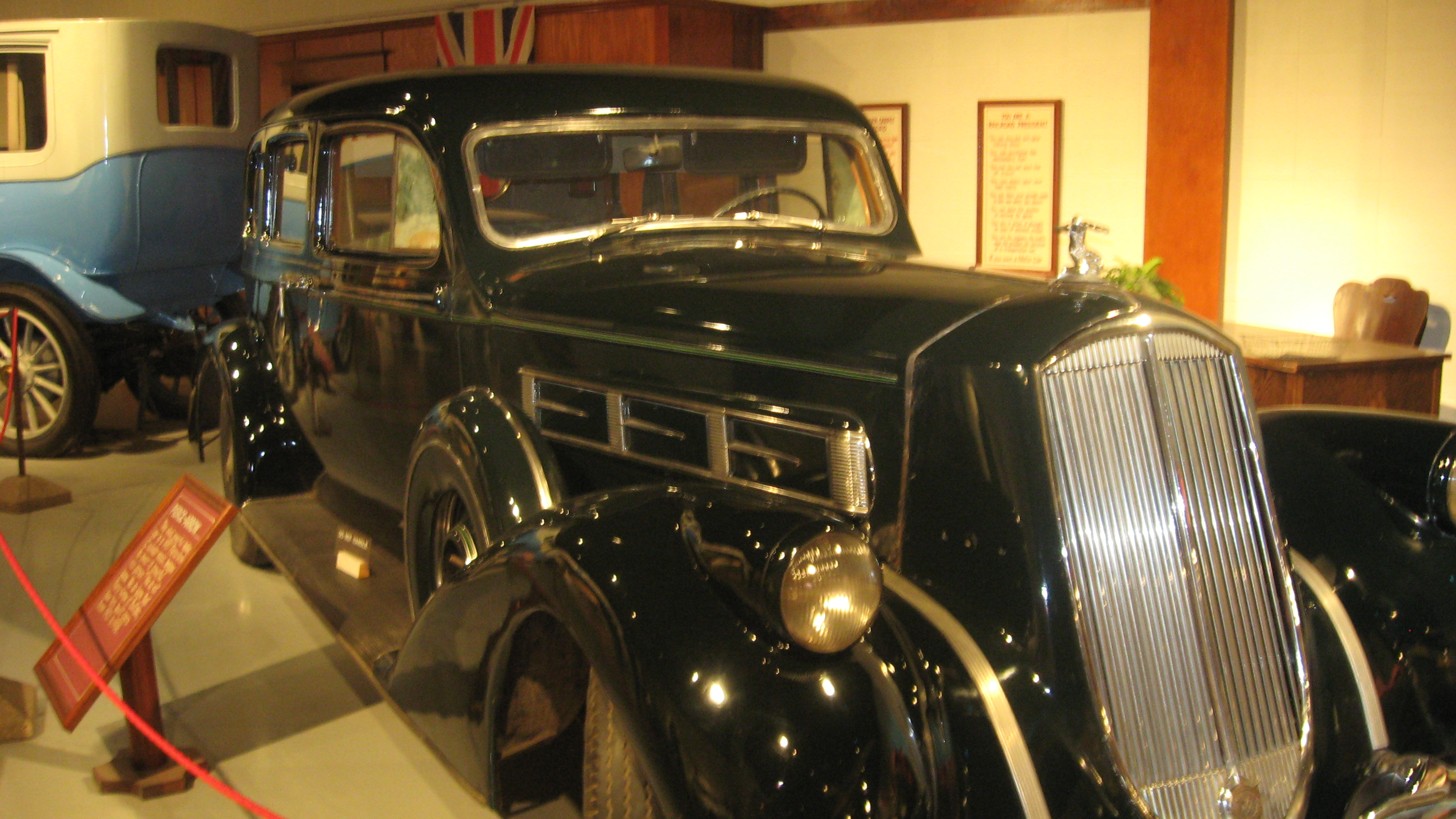 1937 Pierce-Arrow, owned by Saskatoon resident. Shot at local museum. Western Development Museum Saskatoon